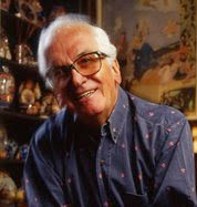 Jacques Fonteray, movie costume designer